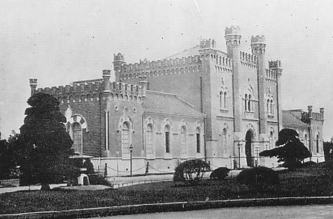 Yushukan in the Meiji era